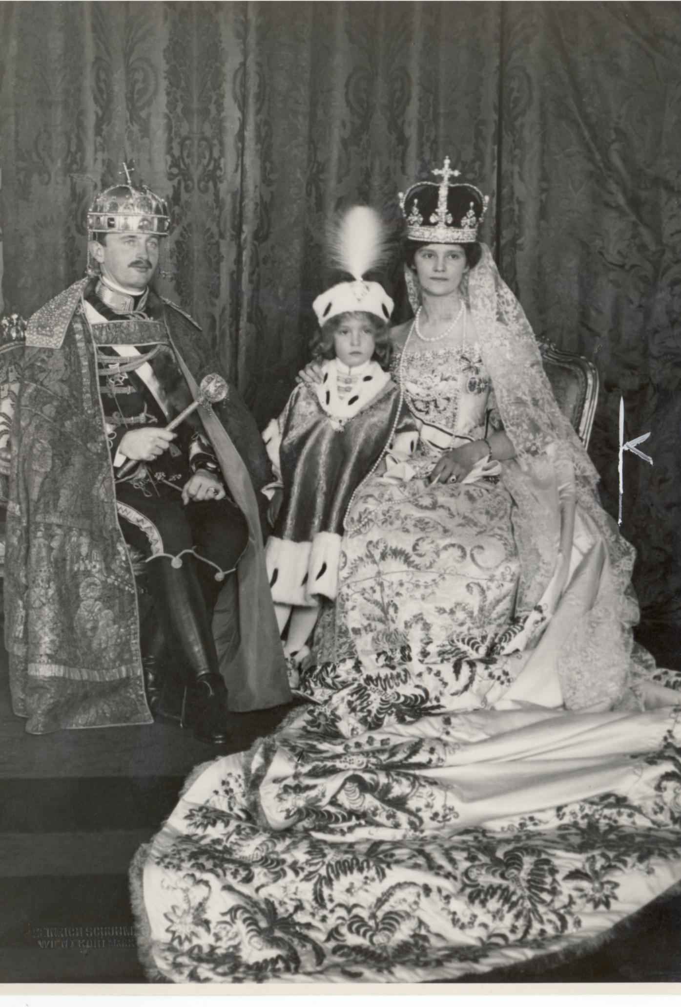 Coronation of King Charles IV and Queen Zita, with crown prince Otto, in Budapest.